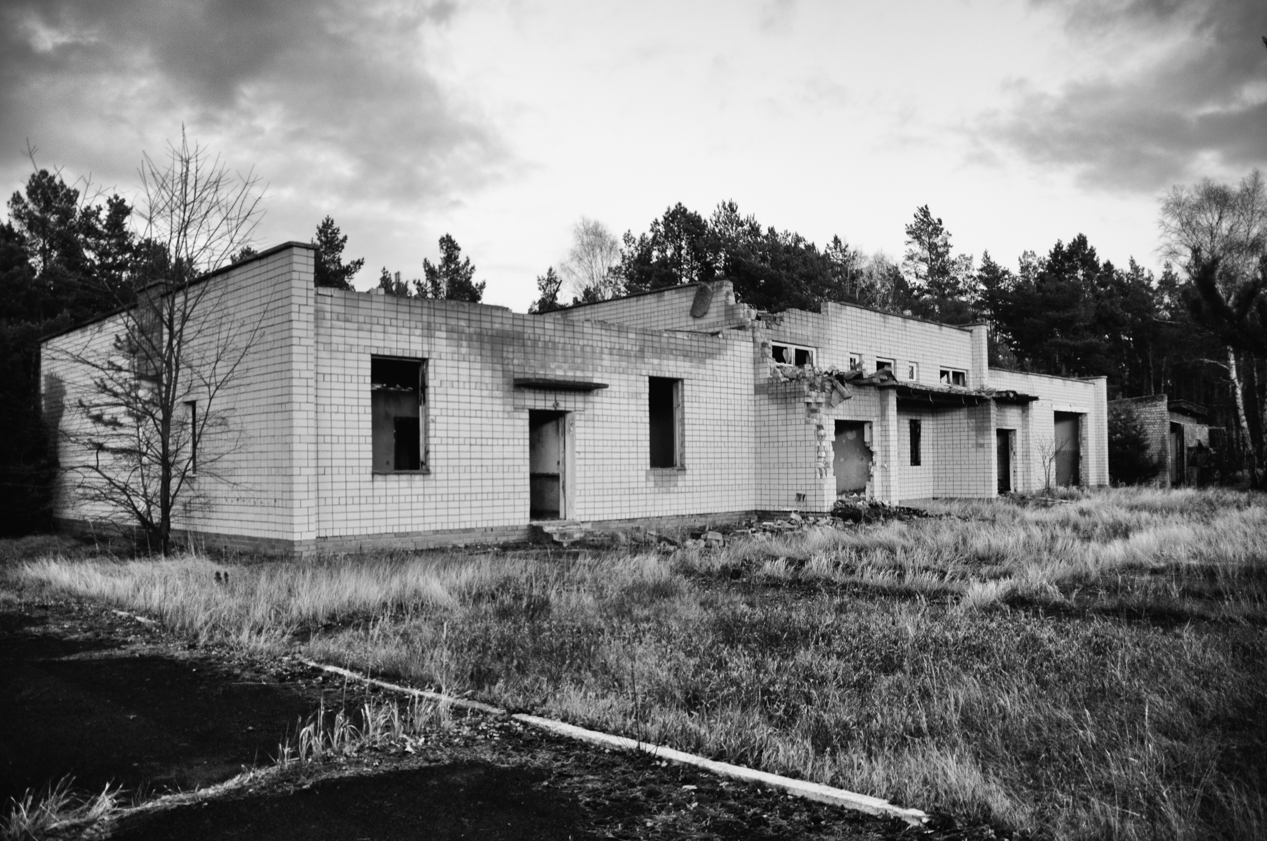 Aerodrome Sperenberg Terminal, GSSD Group of Soviet Forces in Germany Lost Place Airport Urban Exploration